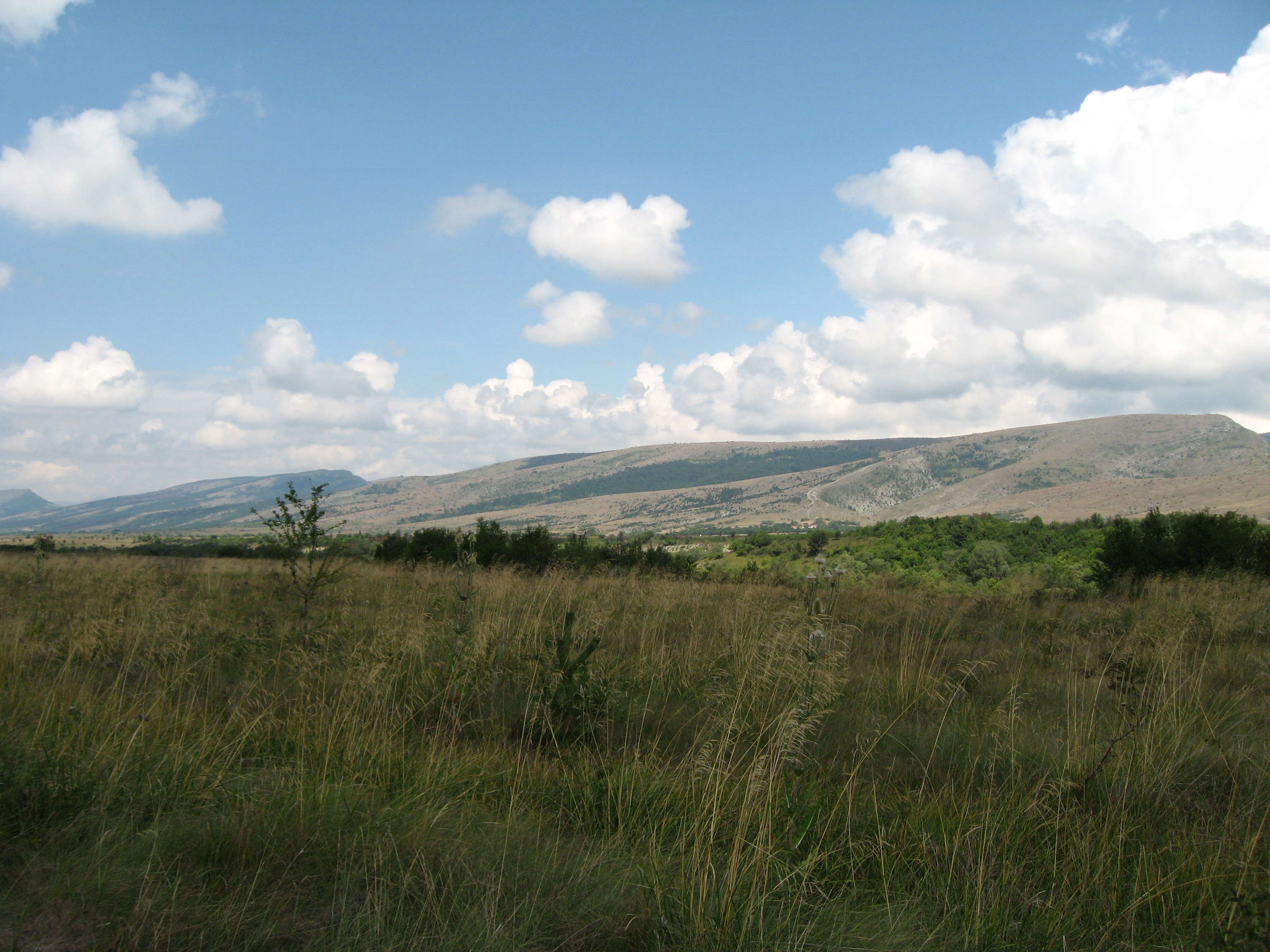 View of village Smolcha, Bulgaria